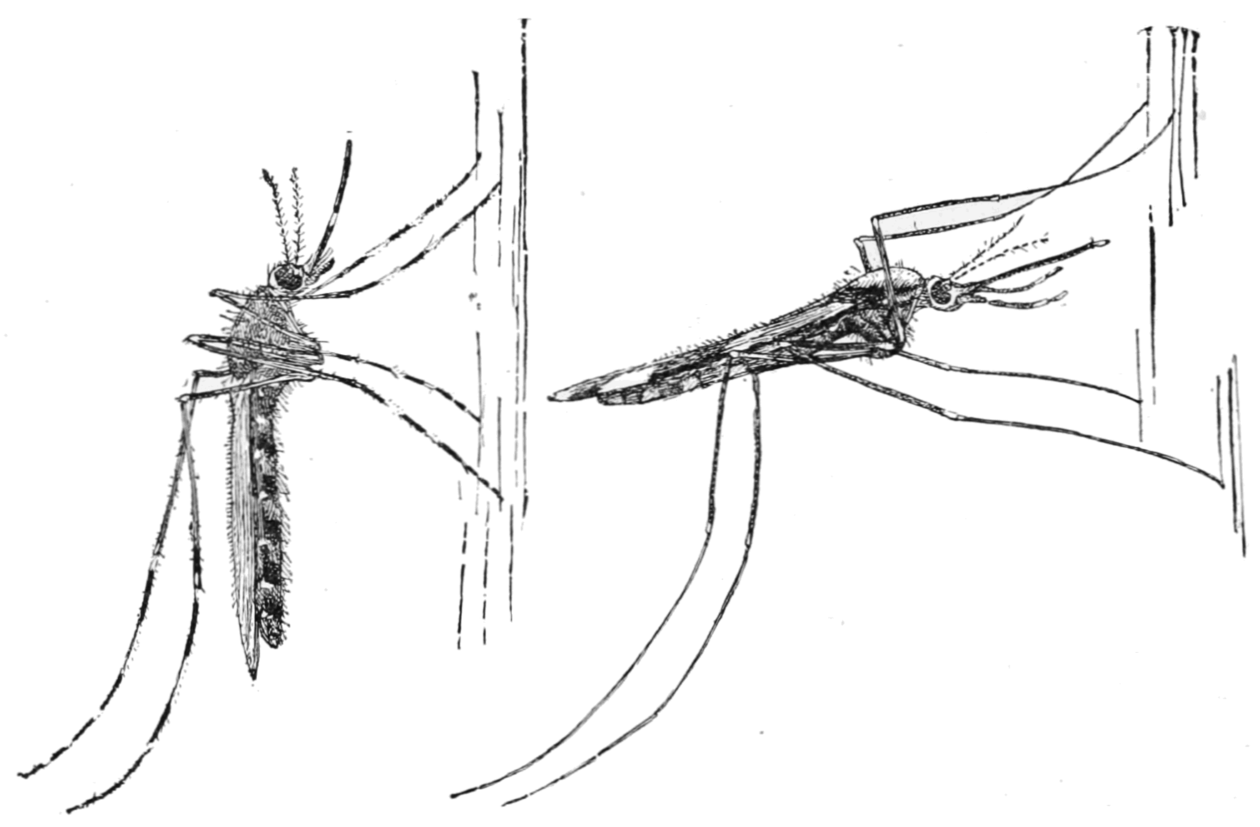 Resting positions of adult Culex (left) and Anopheles (right)